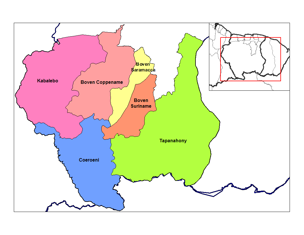 Map of the resorts of the Sipaliwini district in Suriname. Created by Rarelibra 22:51, 27 December 2006 (UTC) for public domain use, using MapInfo Professional v8.5 and various mapping resources. Rarelibra 22:51, 27 December 2006 (UTC)